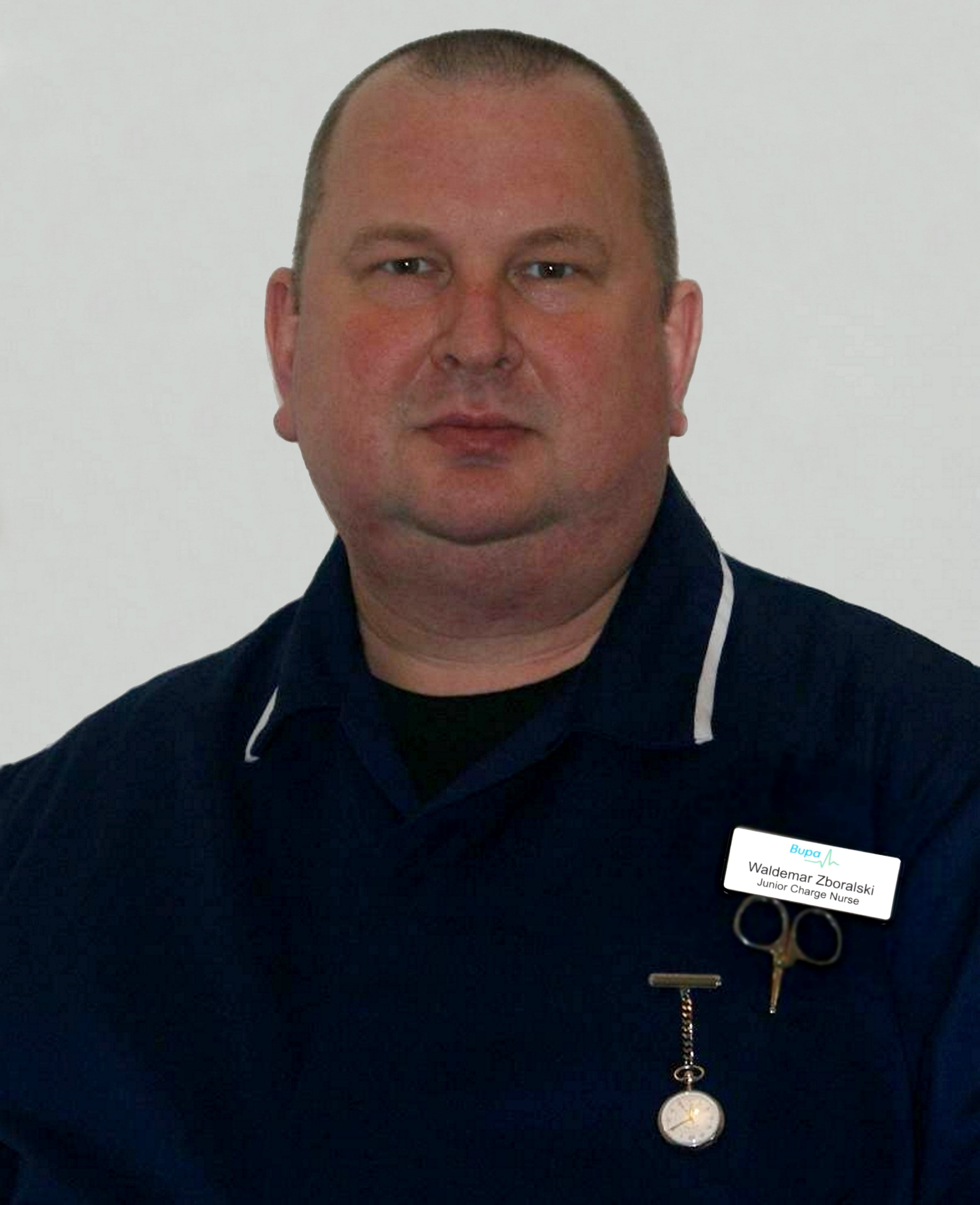 Waldemar Zboralski (in British nurse uniform, 2012)